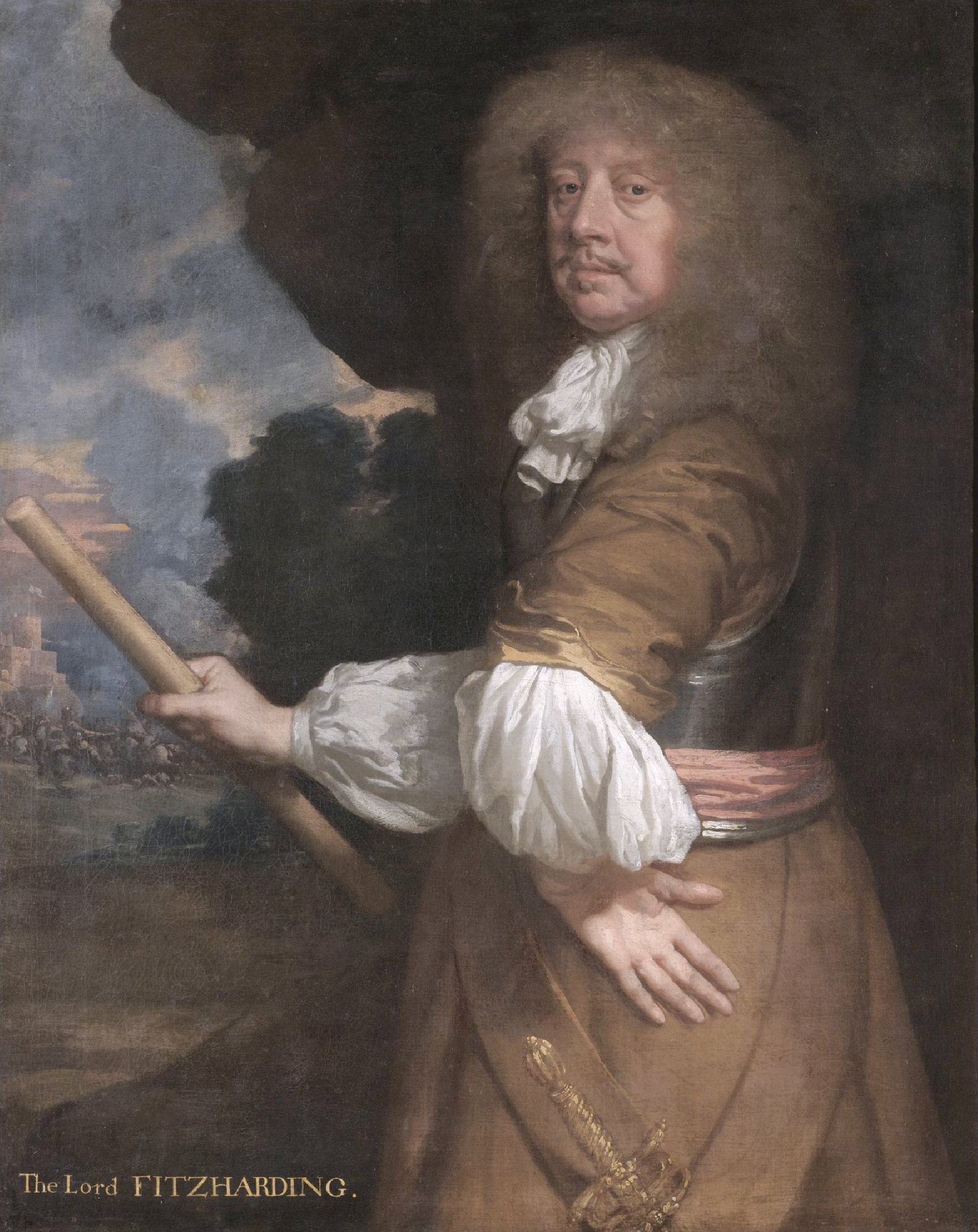 Charles Berkeley, Baron Berkeley of Rathdowne, County Wicklow and Viscount Fitzhardinge of Berehaven, County Kerry (1630-1665)